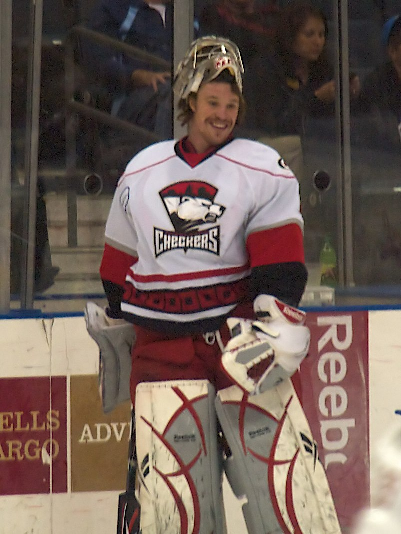 Justin Pogge in a Charlotte Checkers jersey.